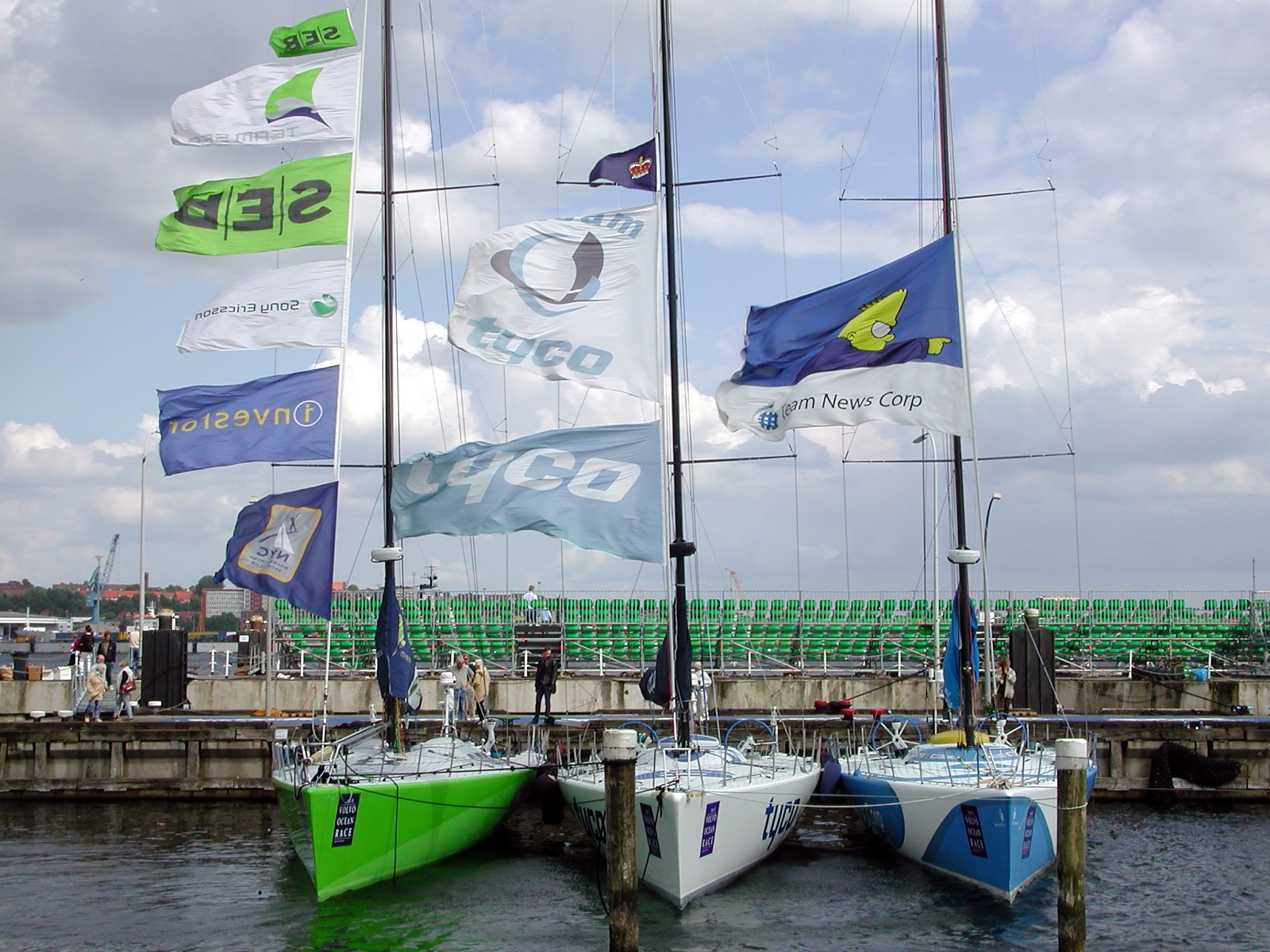 Volvo Ocean Race 2001/2002: Boote der Teams SEB, tyco und News Corp im Zielhafen Kiel.